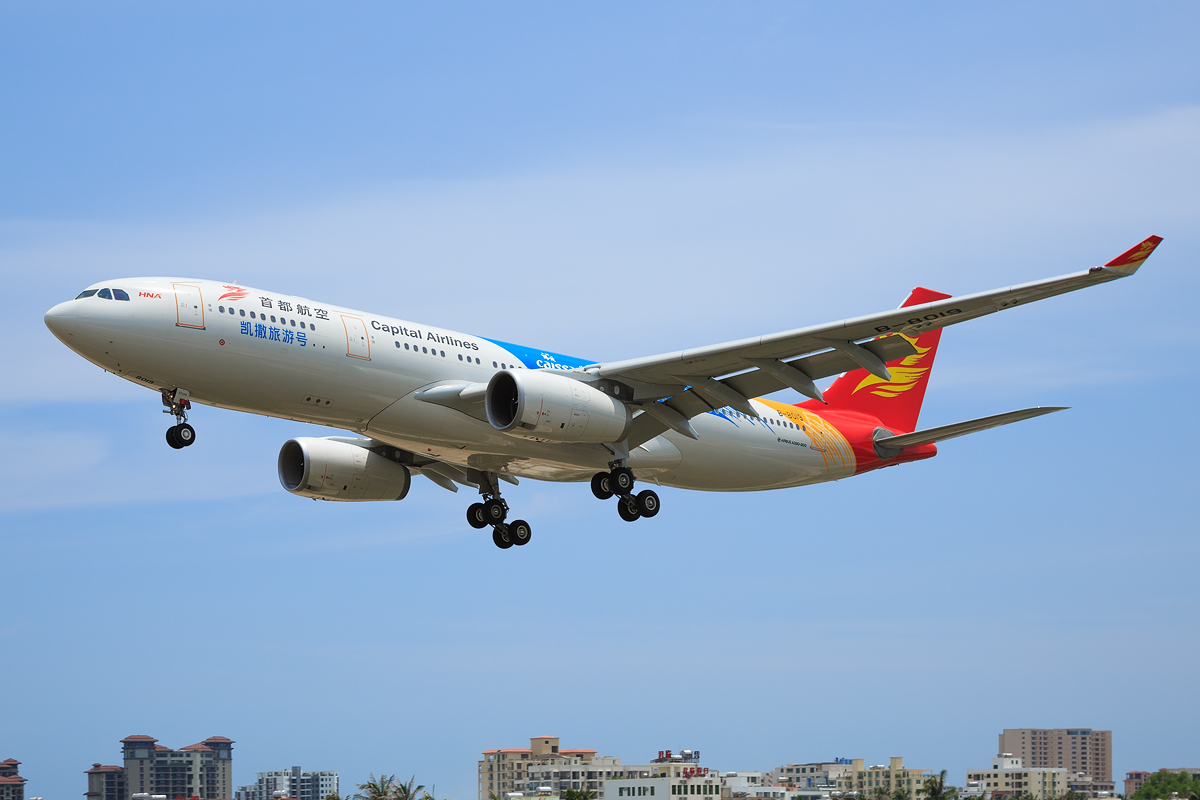 Capital Airlines Airbus A330-243 on finals at Sanya Phoenix International Airport